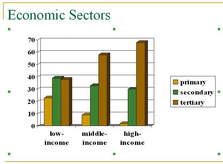 Economic sectors and income This figure illustrates the percentages of a country's economy made up by different sectors based on its level of income or development. The primary sector is the extraction of raw materials. The secondary sector is the conversion of raw materials into manufactured goods. The tertiary sector is the provision of services rather than manufacture of goods. The figure illustrates that countries with higher levels of socio-economic development tend to have less of their economy made up of primary and secondary sectors and more emphasis in tertiary sectors. The less developed countries exhibit the inverse pattern.